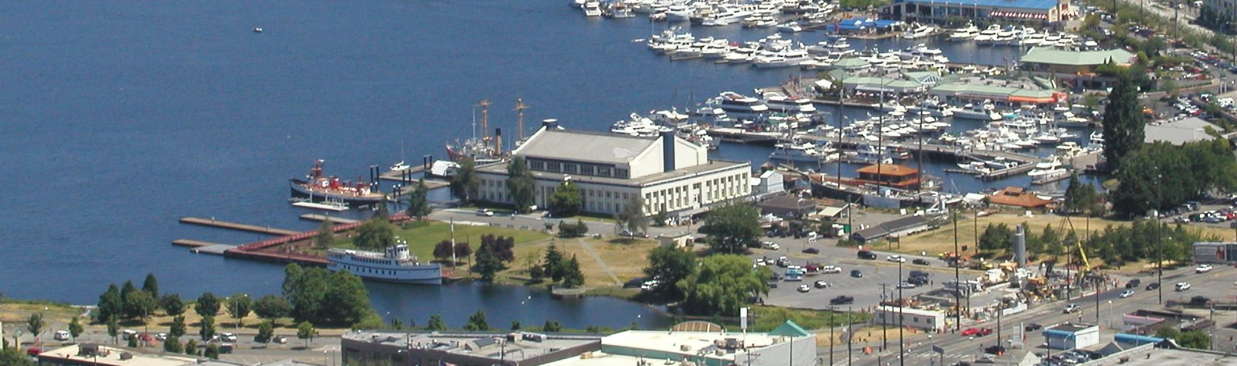 Naval Reserve Armory and Lake Union Park, Seattle, Washington, viewed from the Space Needle in 2003 or 2007. (This image is a detail from a larger photo, Southlakeunion.jpg, uploaded 21 September 2007 by Waqcku (South Lake Union as seen from the Space Needle.)